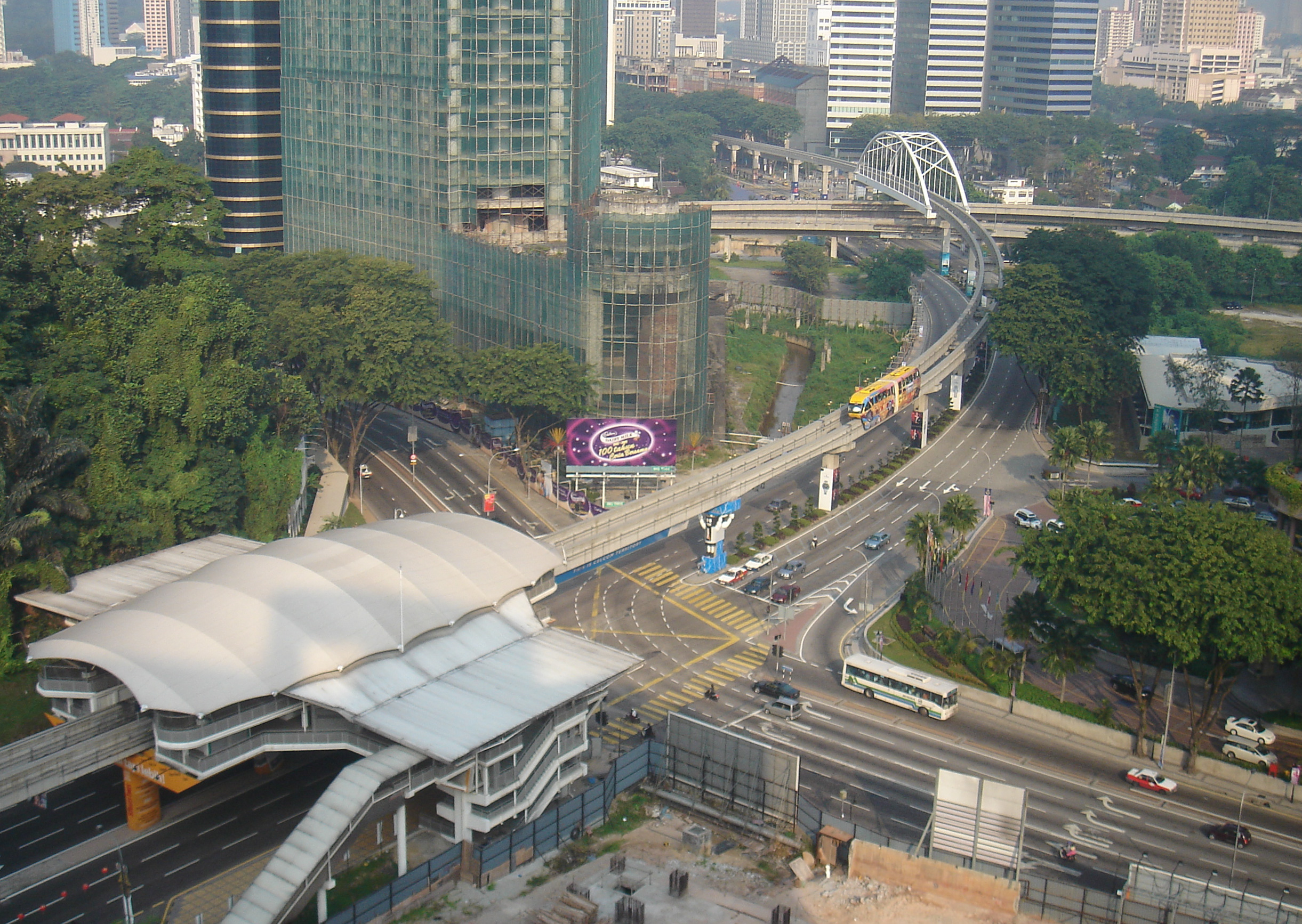 View of the Bukit Nanas KL Monorail station from top, Kuala Lumpur, Malaysia.